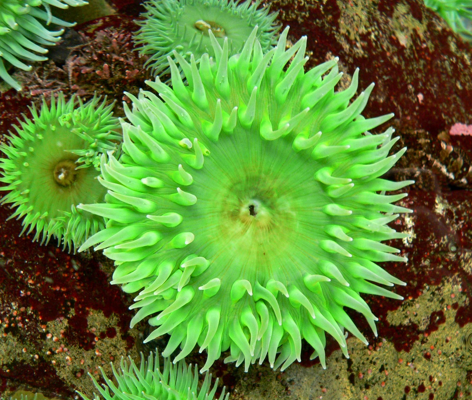 Photo of Anthopleura xanthogrammica (giant green anemone) at the Vancouver Aquarium